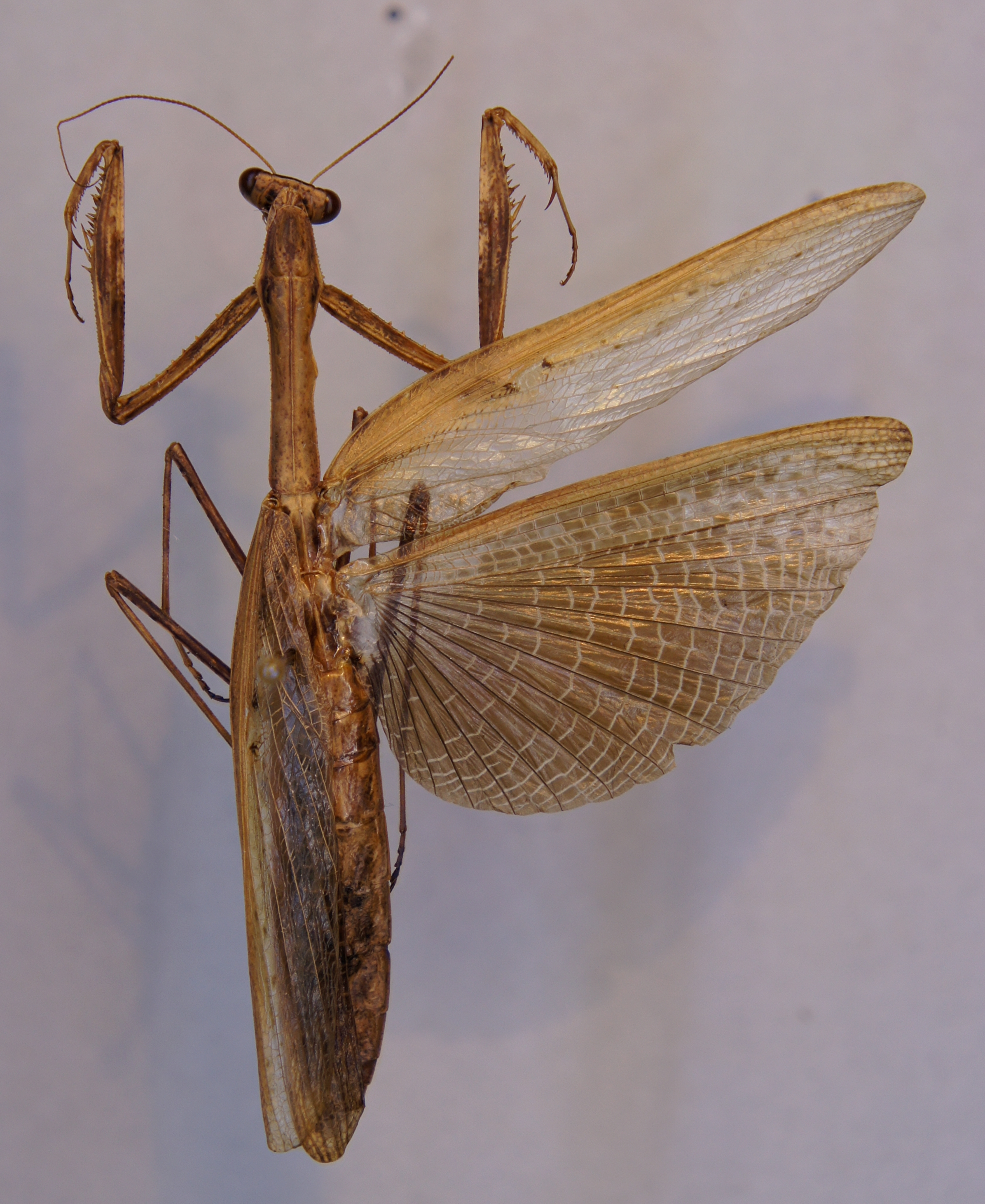 Statilia nemoralis (Saussure, 1870), male, dorsal view; det. R. Ehrmann, 2002; leg.: Malaysia, Sabah, North Borneo, District Ranau, Poring Hot Spring Lodge, May, 2002, Leg. T. Kothe